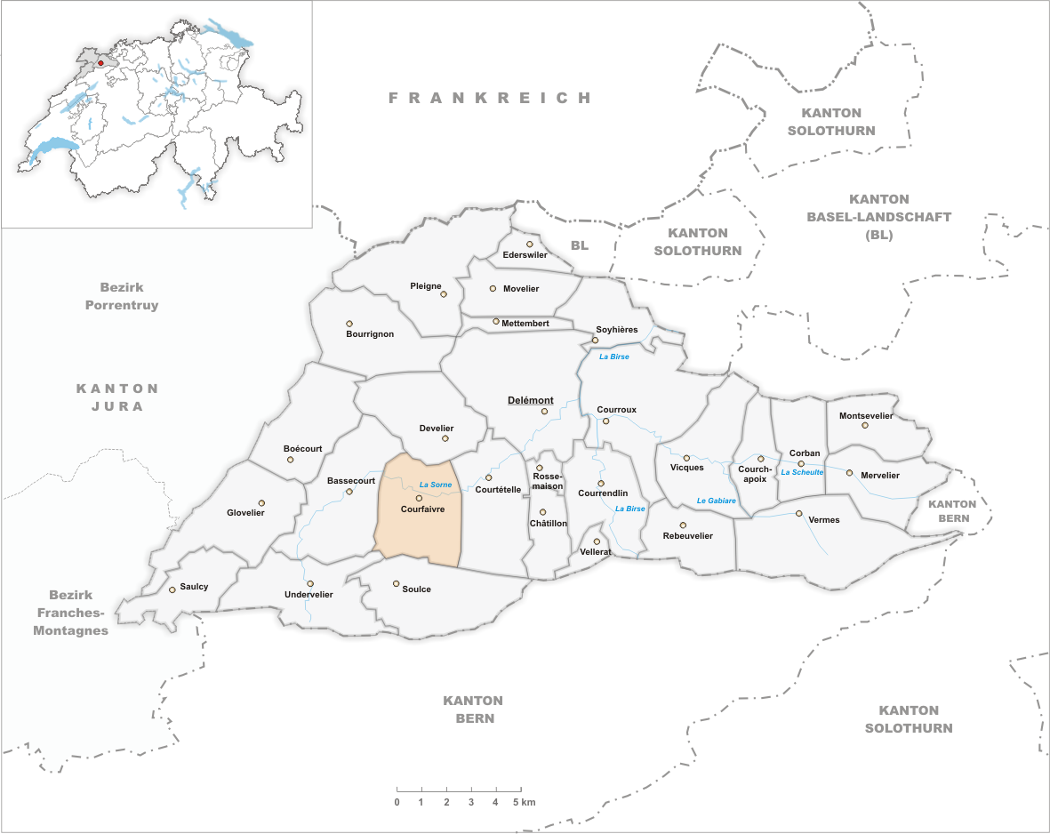 Municipality Courfaivre